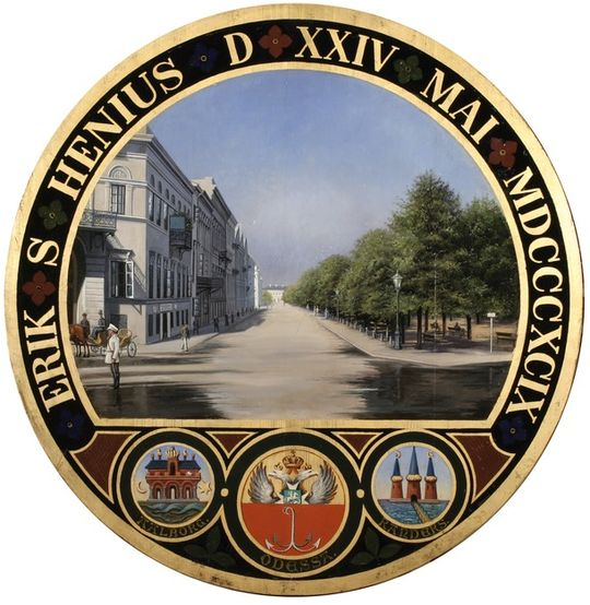 A decorated target - something new members of the Roydal Copenhagen Shooting Society had to have made. "Skydeskive for Erik S. Henius: Grosserer, 1899. Skydeskiven fik man lavet, når man blev medlem af Det kgl. Kjøbenhavnske Skydeselskab. Motiv: Sankt Annæ Plads. Henius havde sit handelsfirma i ejendommen til venstre på 3. sal. Grossererbetegnelsen kom på mode i 1800-tallets slutning i stedet for den ældre betegnelse købmand som nu knyttedes til mindre handlende."